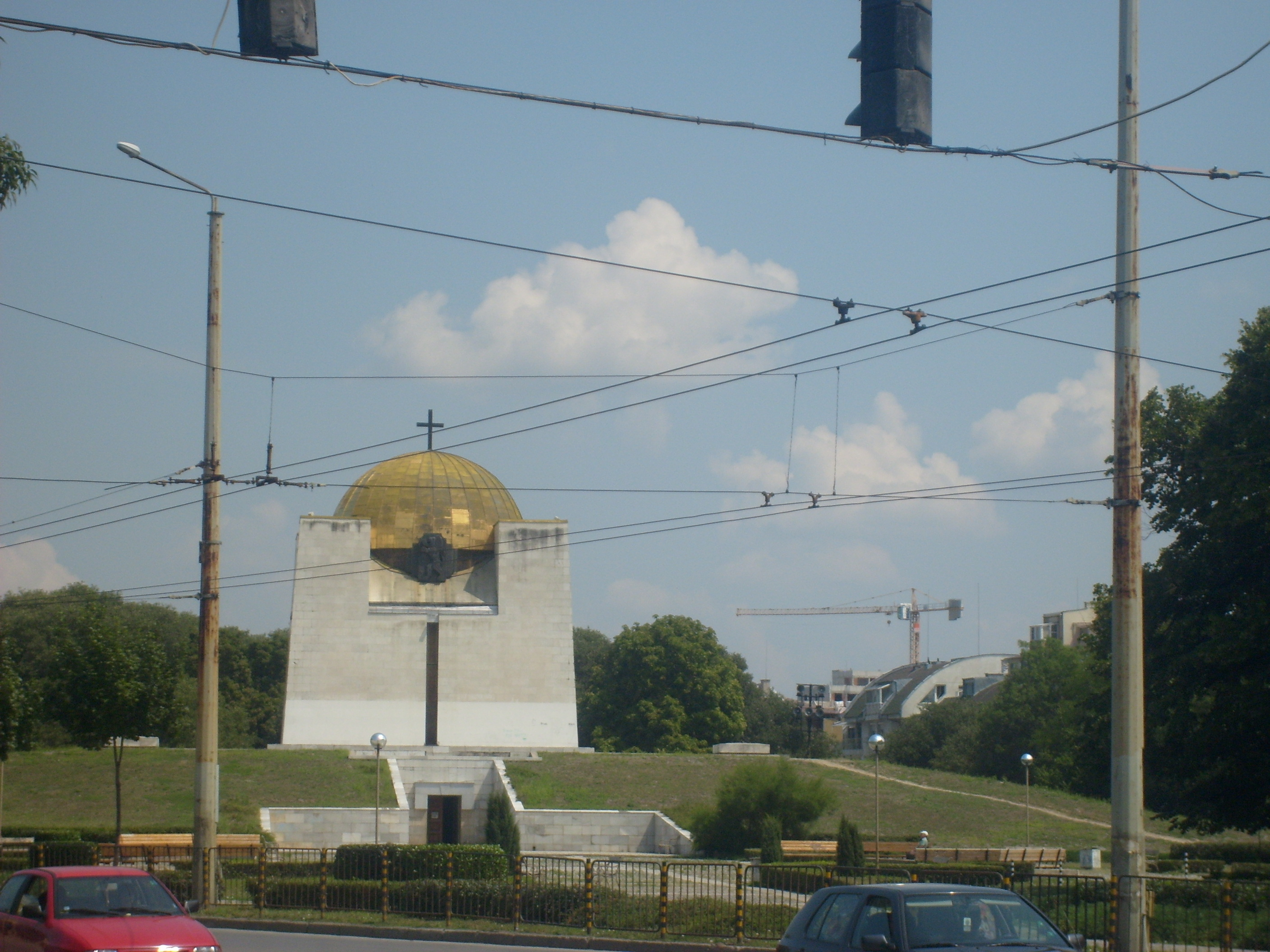 Ruse, Bulgaria Pantheon of National Revival Heroes